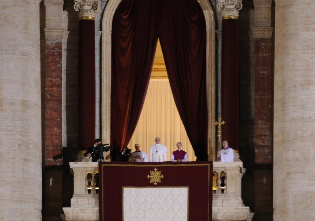 Pope Francis, March 13, 2013: photo taken from St. Peter's Square, just after the pope's election